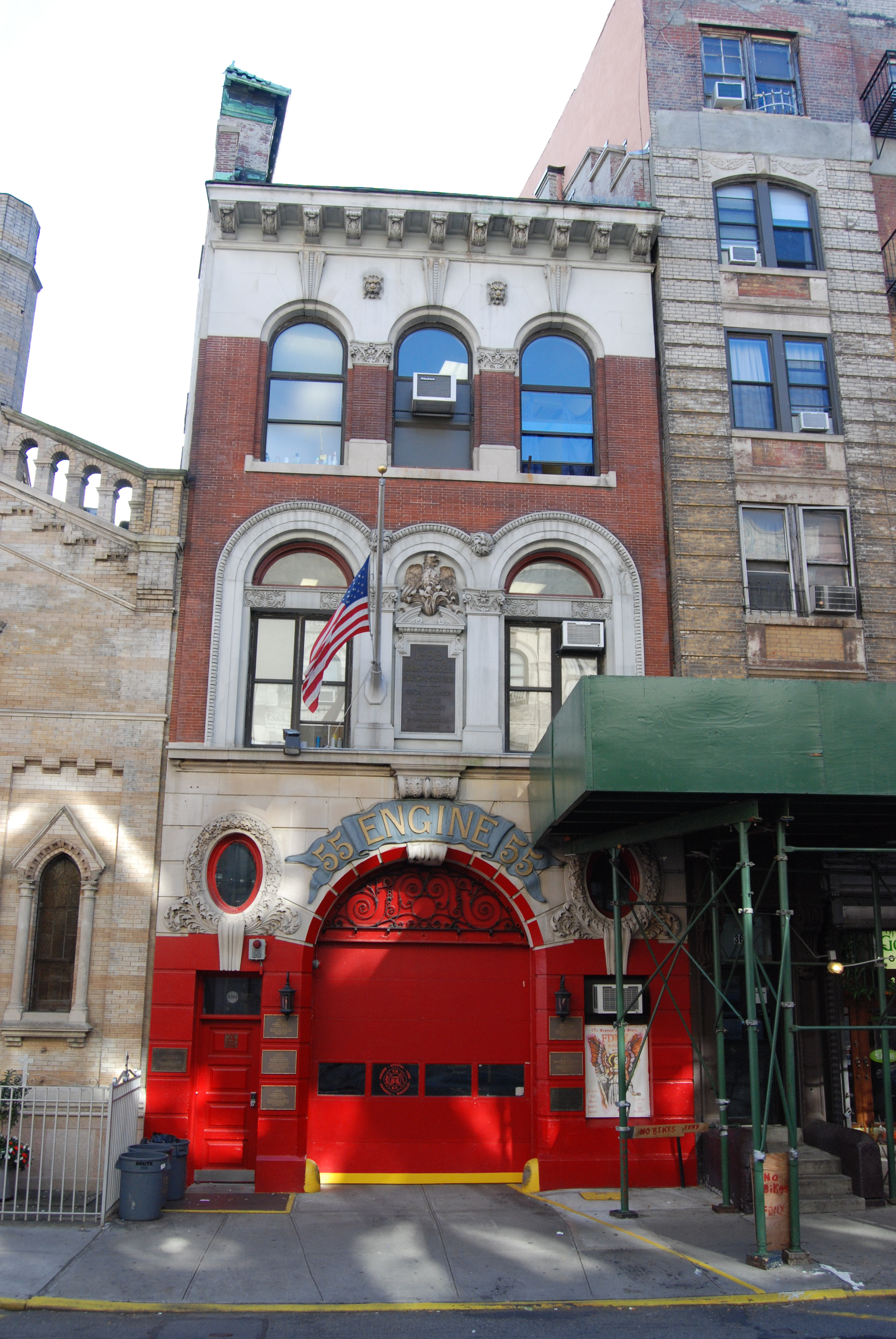 Fire Engine Company 55 in New York City